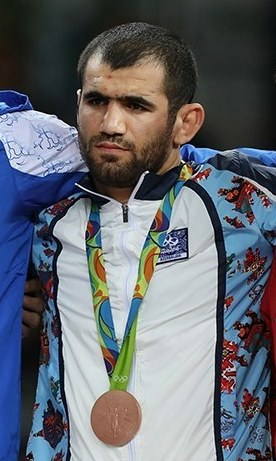 Jabrayil Hasanov at the Summer Olympics 2016 awarding ceremony. Men's Freestile Wrestling 74 kg